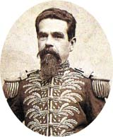 Image of Marshall Carlos Machado Bittencourt (1840 - 1897), Brazilian military